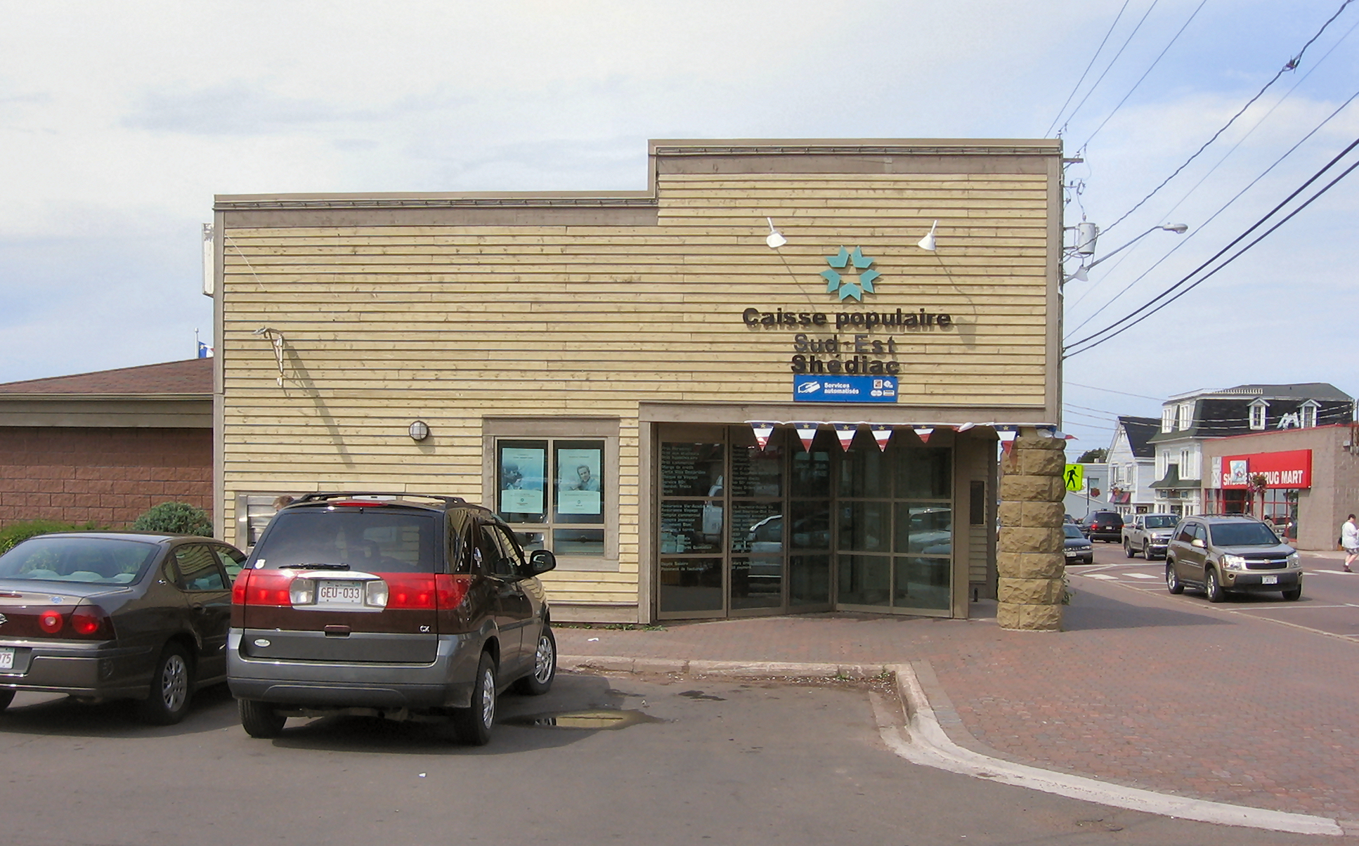 Shediac - credit union